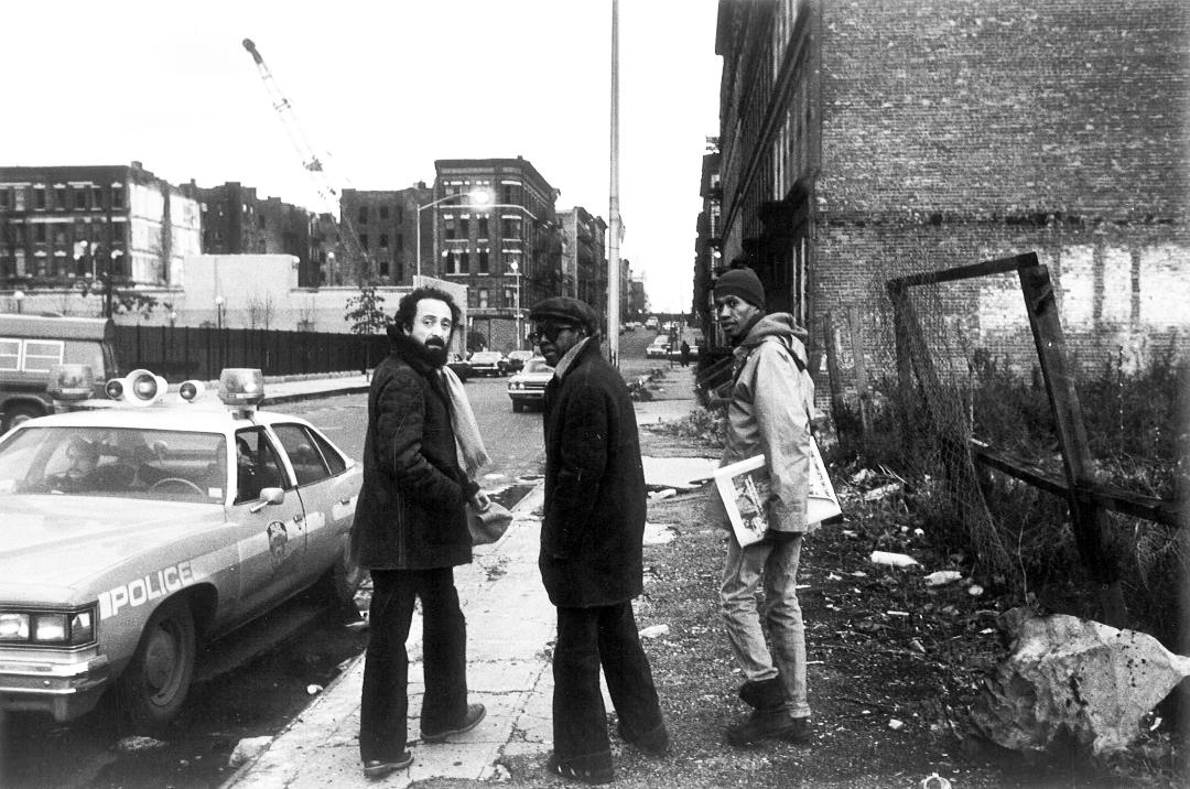 Giacomo Pellicciotti ad Harlem negli anni 70